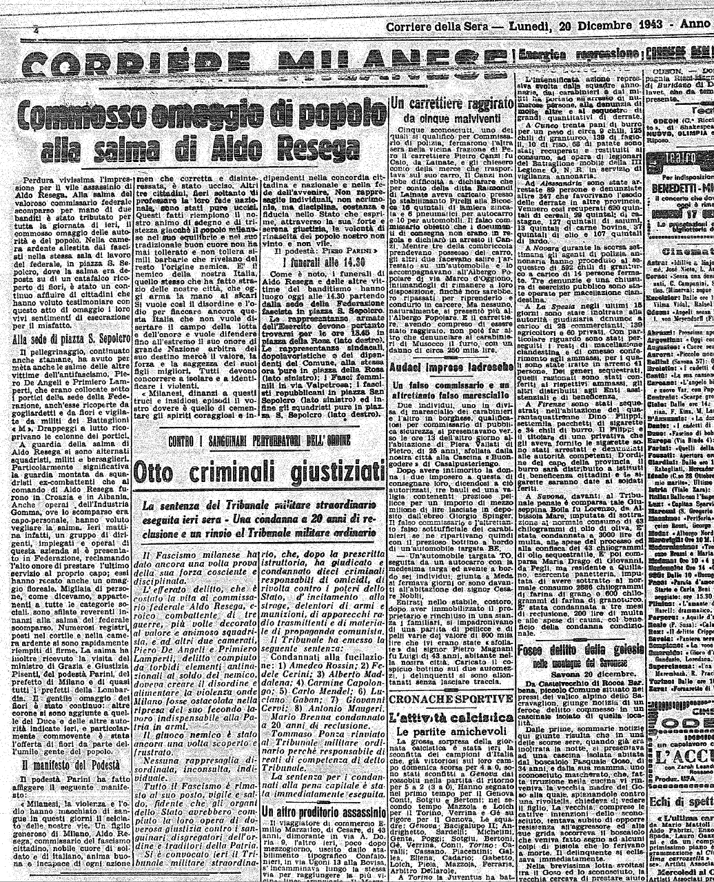 Articles published on Corriere della Sera of 20 December 1943 on the attempt on Aldo Resega, Milan secretary of the fascist Party and the death sentence on retaliation of eight opponents of the Repubblica Sociale Italiana